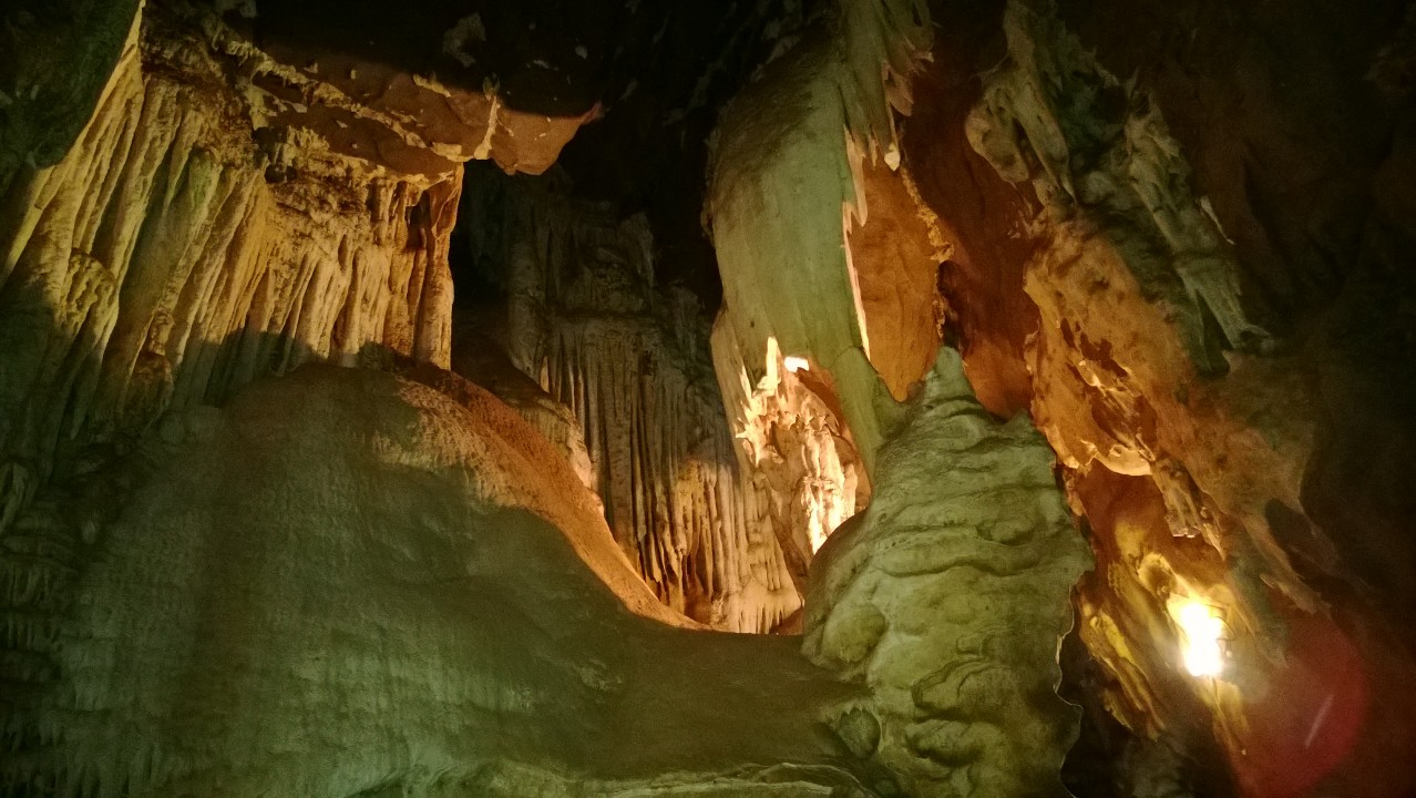 This is an image of Cultural Fashion or Adornment from South Africa